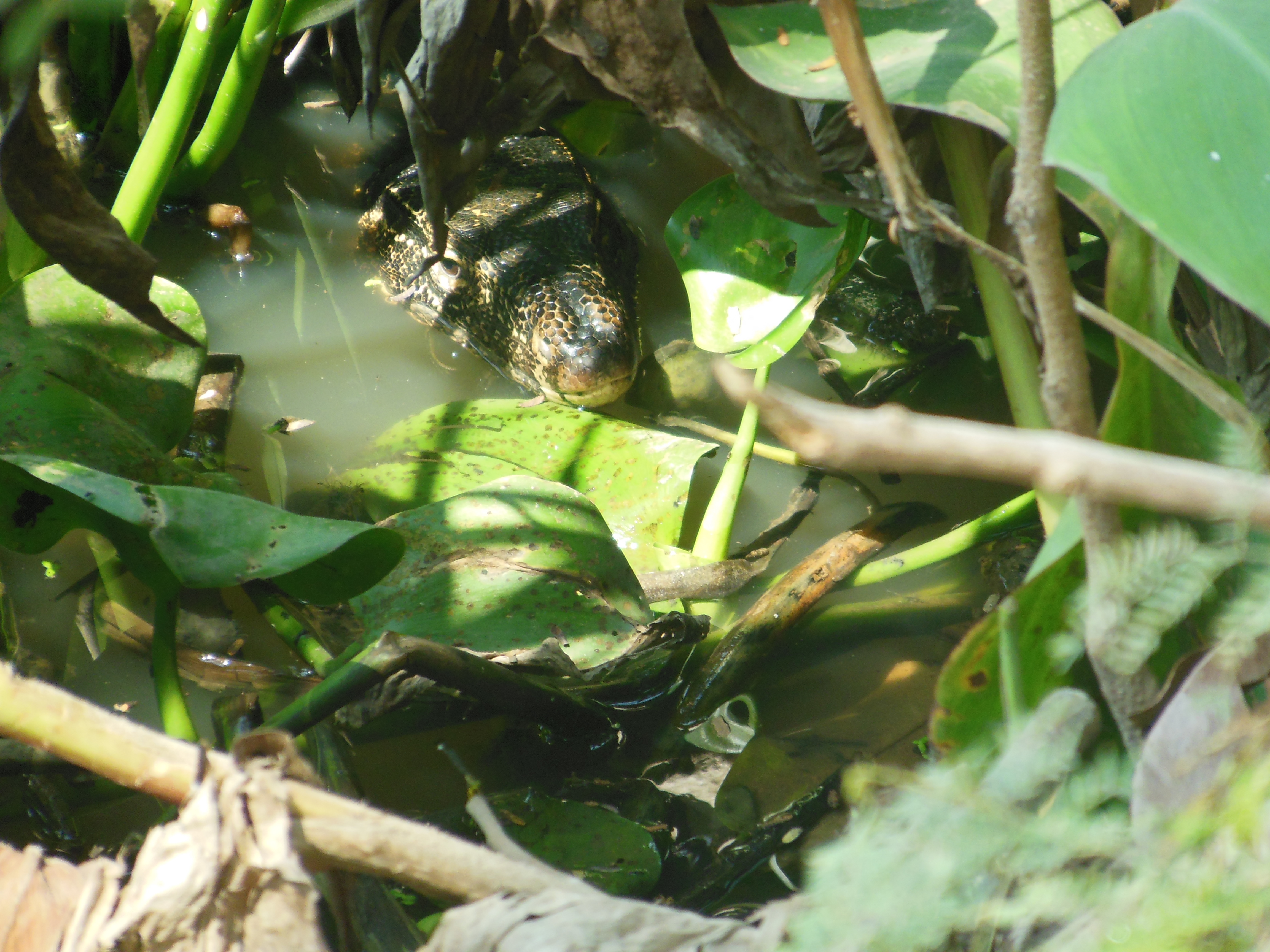 Water monitor in the water